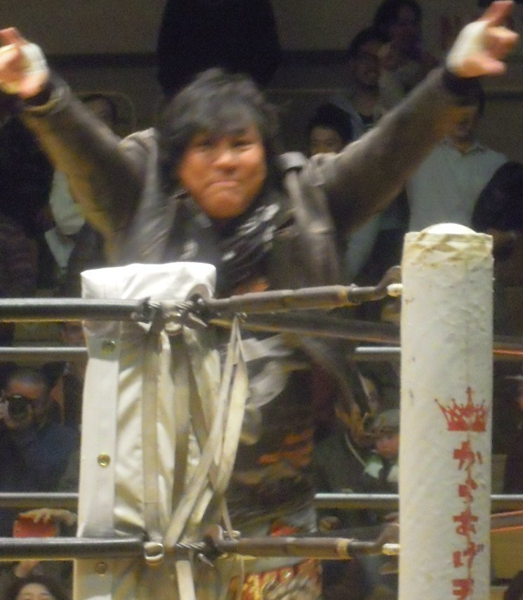 Japanese professional wrestler, Atsushi Onita. Feb 3 2013, ZERO1 Korakuen Hall.